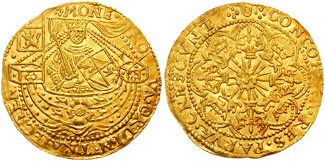 Lowlands, Utrecht. AV Half Rose Noble (3.75 gm). Struck 1580-1581. Ruler standing facing in ship with rose on side Radiant sun surrounded by crowns and lions. Delmonte 960; Friedberg 279. Choice EF.